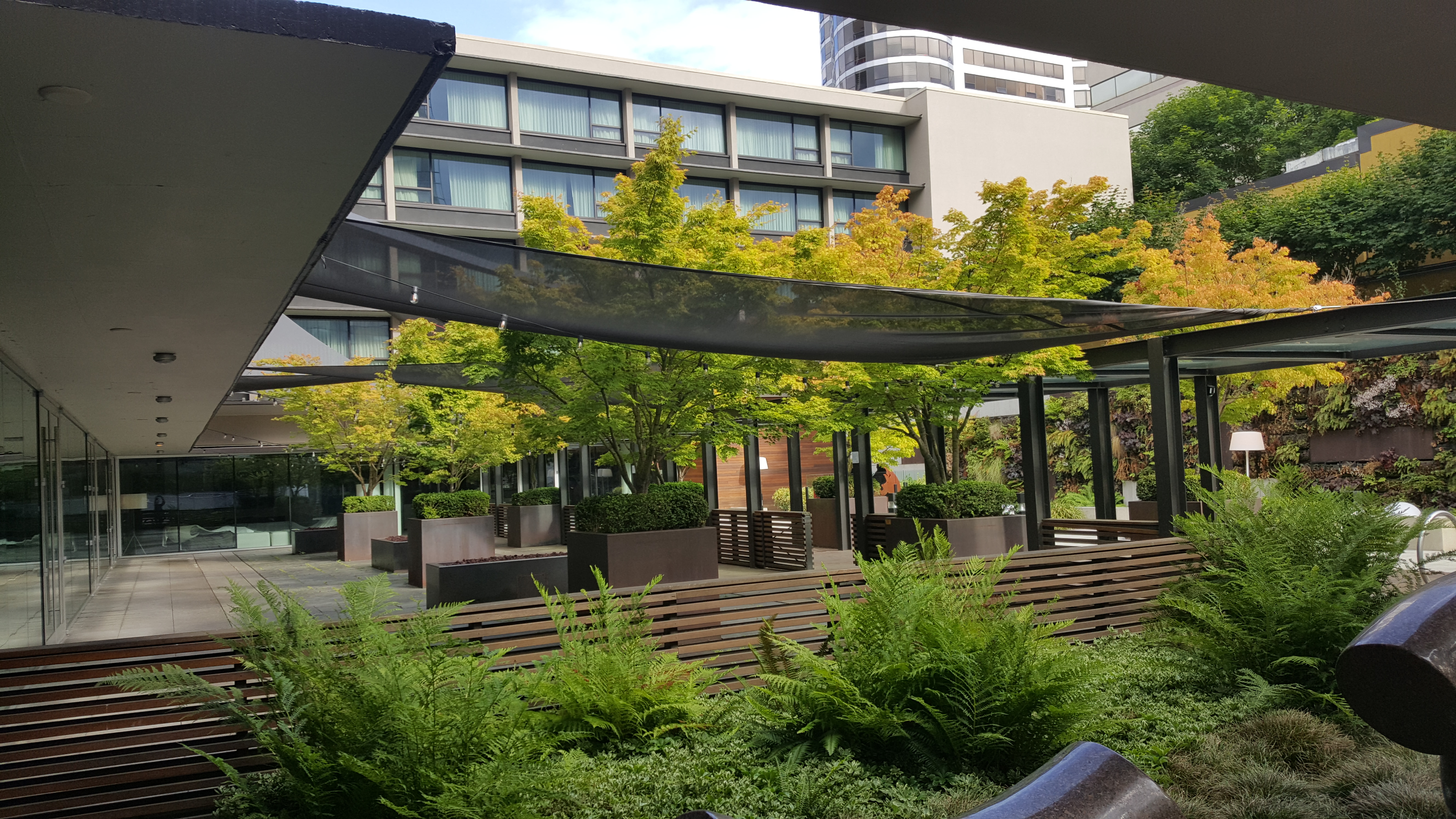 Nel Centro, Portland, Oregon, June 2020